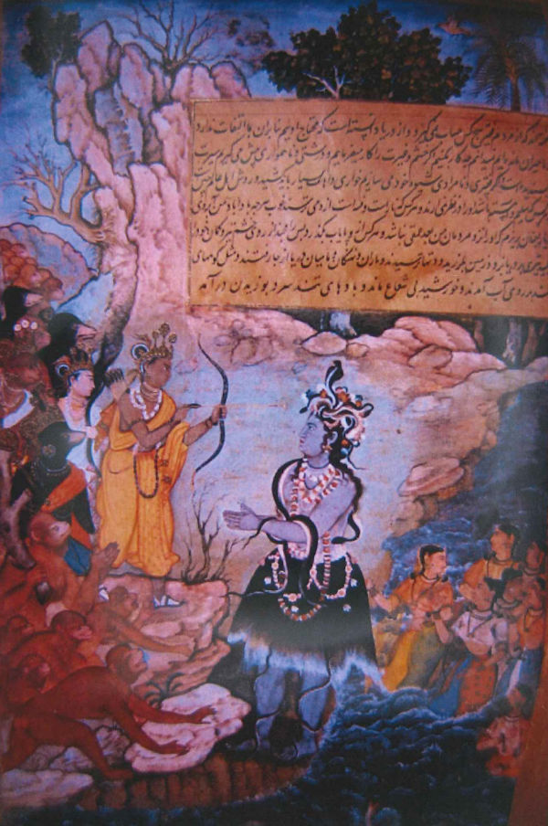 Episode of Ramayana